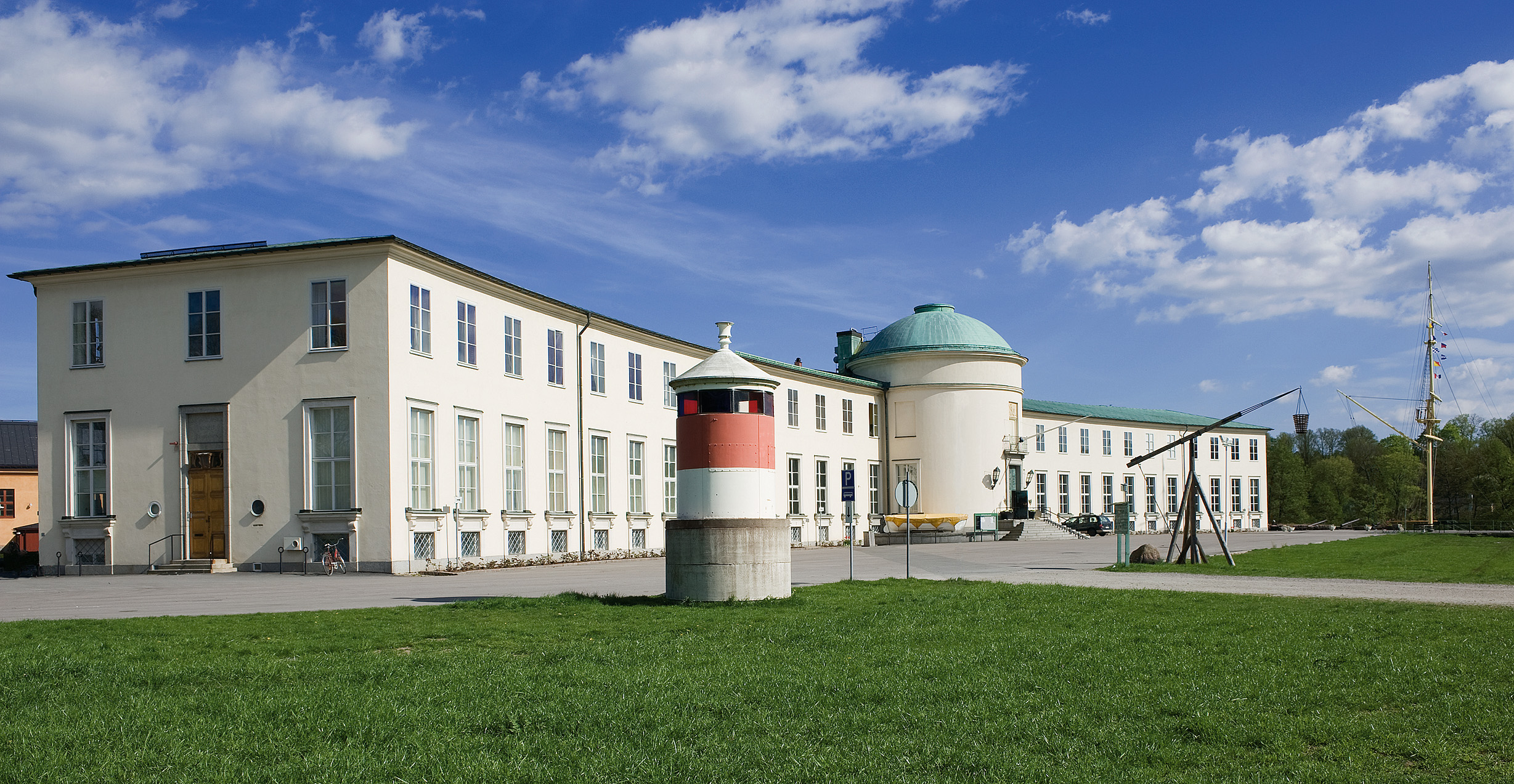 The Maritime Museum 2008